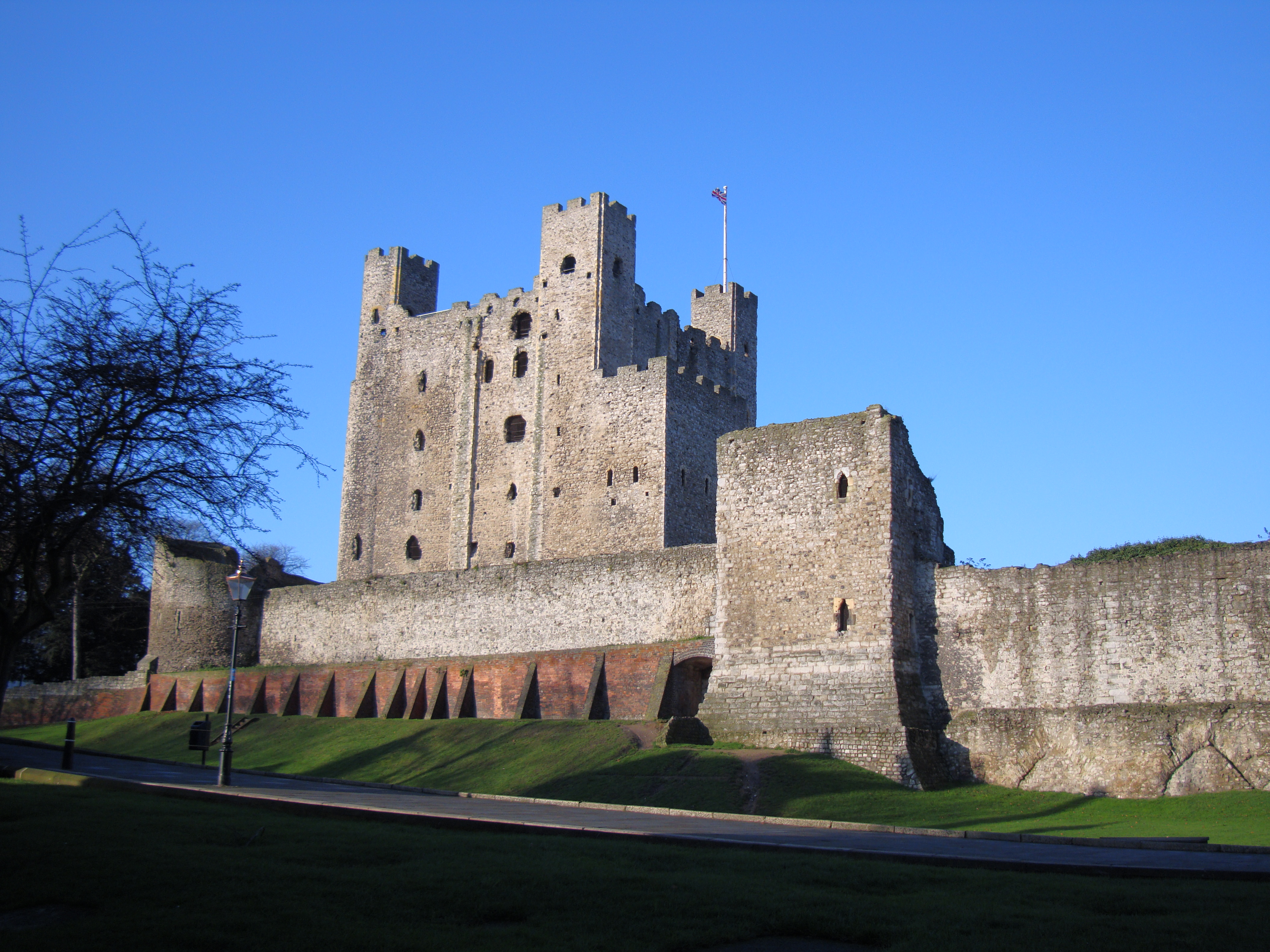 Photograph of Rochester Castle, Kent, England